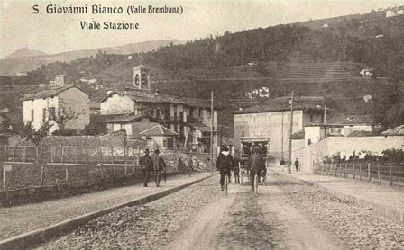 San Giovanni Bianco, Viale della Stazione